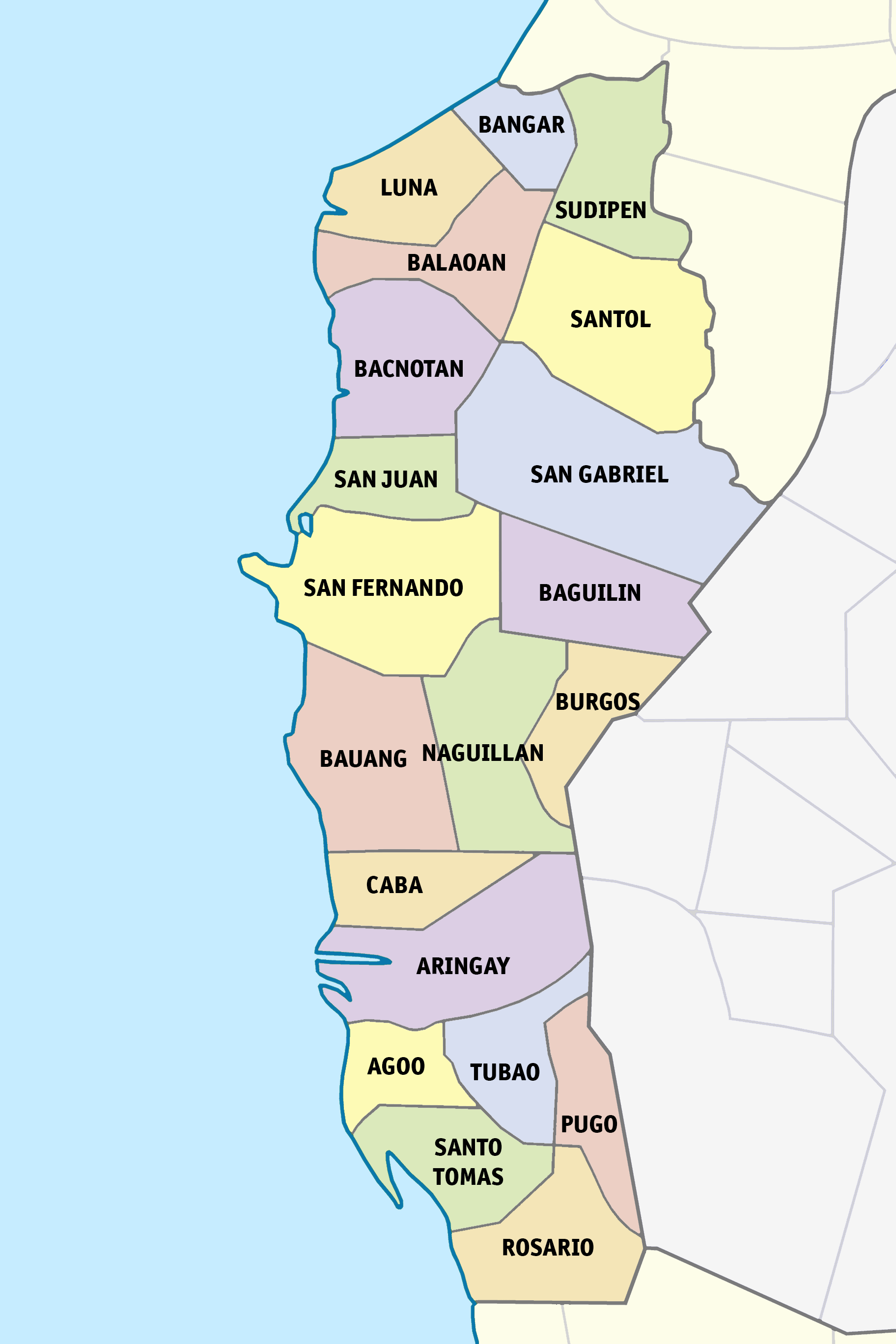 Political map of LA Union